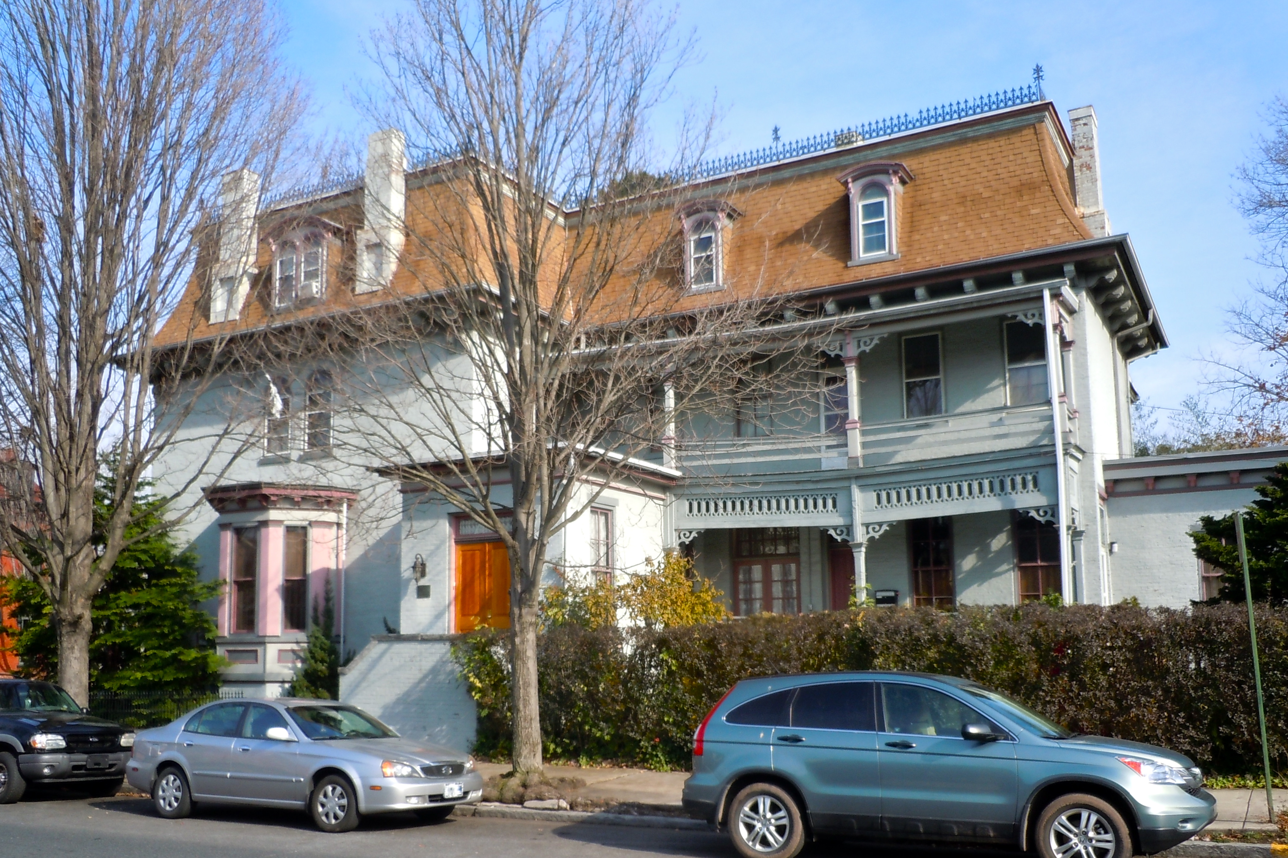 Josiah Funck Mansion on the NRHP since January 31, 1980. At 450 Cumberland Street, Lebanon, Pennsylvania